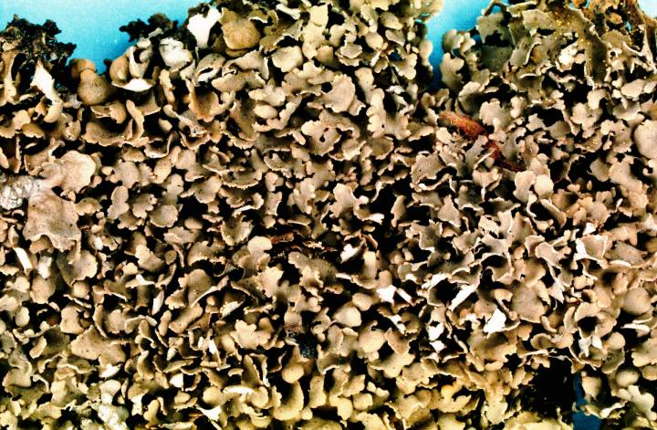 Cladonia apodocarpa Robbins, 1925 (photograph of a herbarium specimen) Growing on acid rock outcrops in deciduous forest above Gunpowder Falls at Fall Road, Baltimore County, Maryland, USA; collected and identified by A. Norden and B. Norden (No. L-3, 12 Aug 1974); specimen is now in the Lichen Herbarium of the New York Botanical Garden.